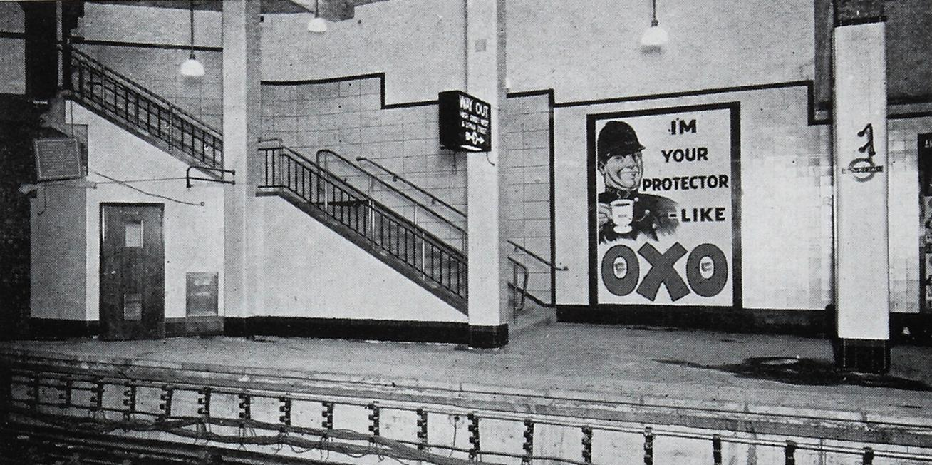 Our Catalogue Reference: ZSPC 11/256 Description: Stairway between ticket hall and platform at the new Aldgate East Station Date: c 1946 Images reproduced by permission of London Transport Museum © Transport for London